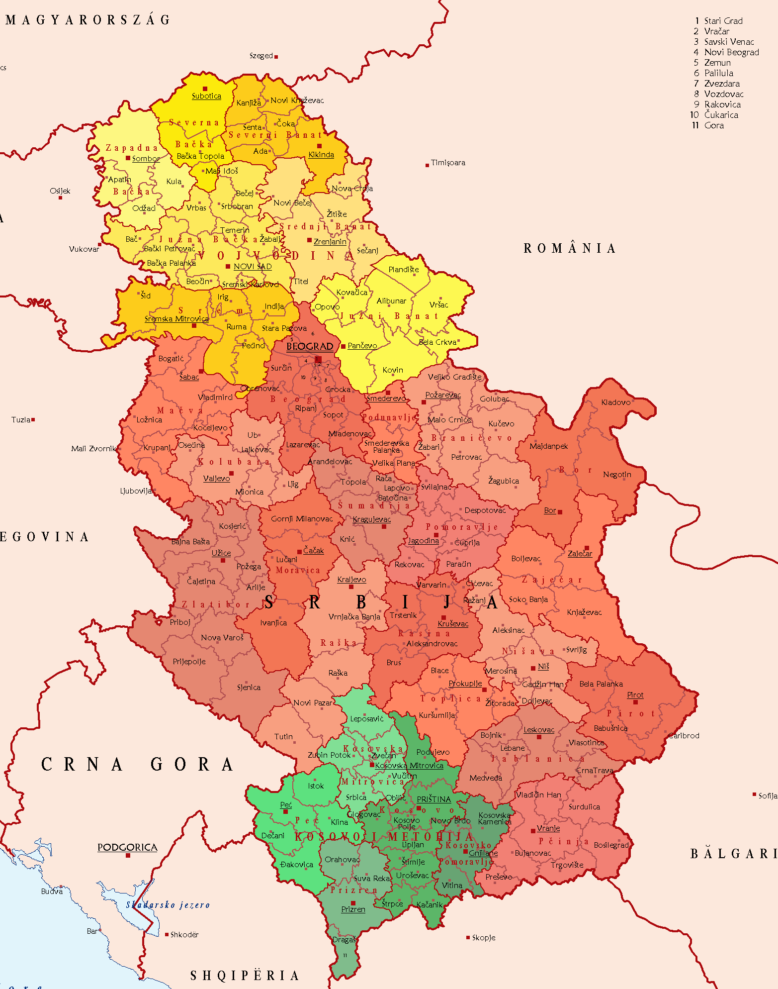 Political Division of Serbia